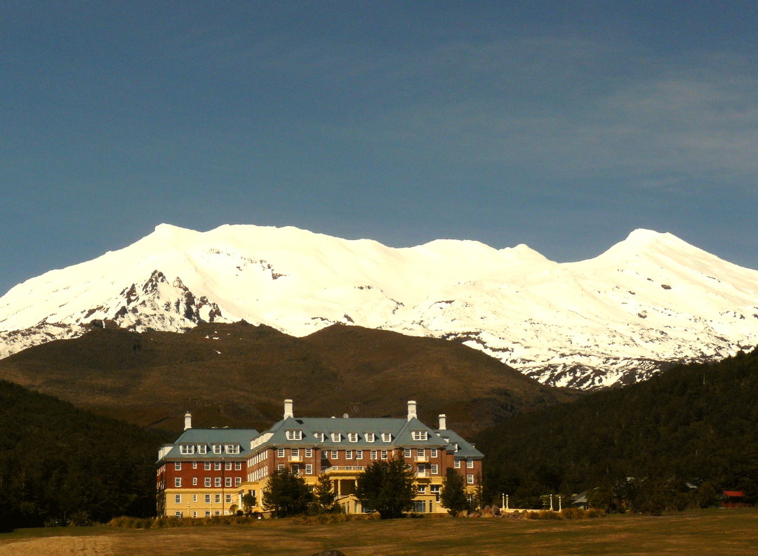 Mt. Ruapehu (the highest point in the North Island at 2797 m.) is one of three active volcanoes in the Tongariro National Park, which is a listed dual World Heritage Area. At its foot is the impressive Chateau Tongariro hotel. Ruapehu last erupted in Sept. 2007.